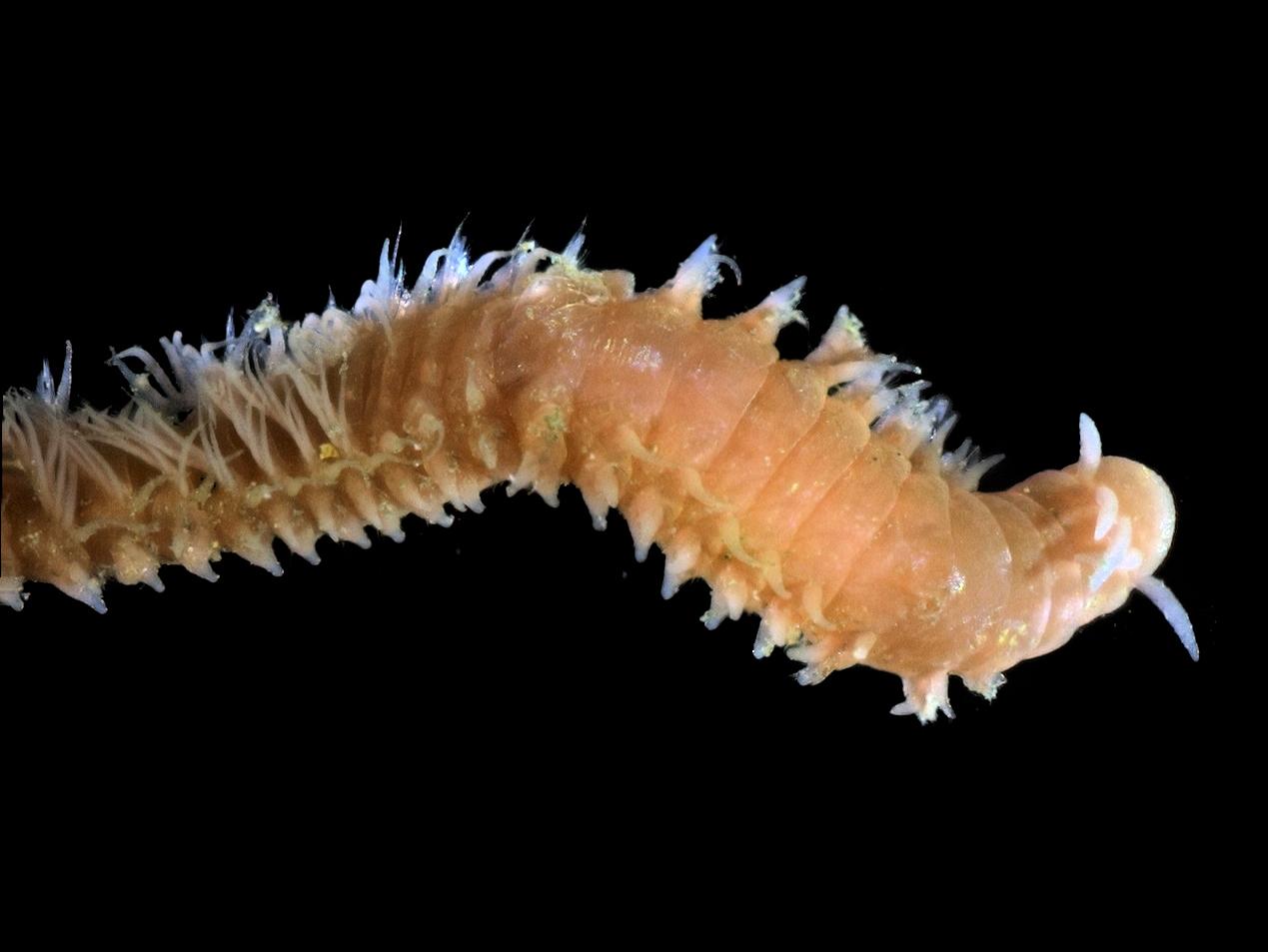 Polychaete from the Belgian part of the North Sea. Lab image. Largest width = ~3 mm.